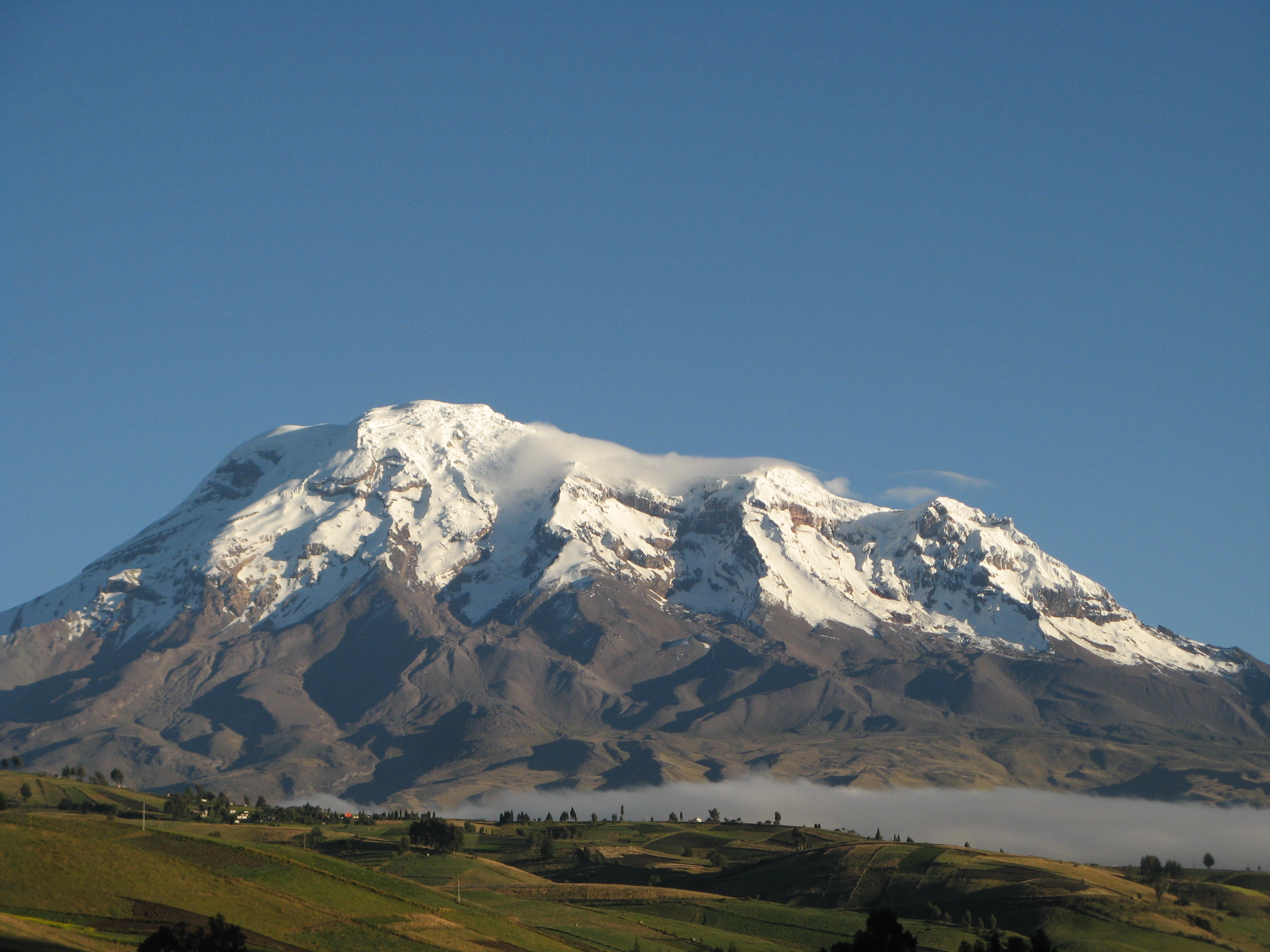 Ecuador's Chimborazo, morning time in 2008